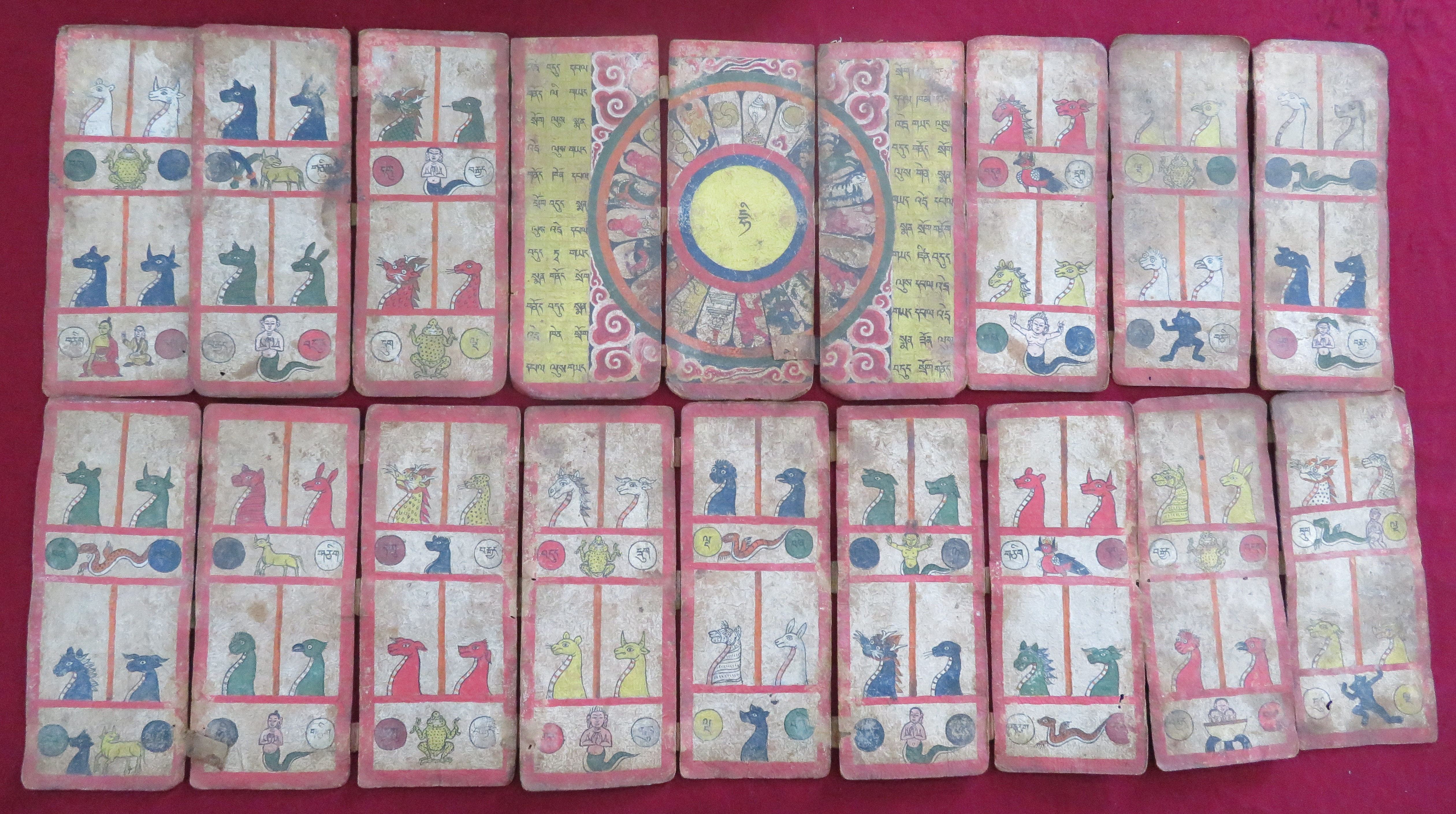 Ersu astrological text, with zodiac animals.